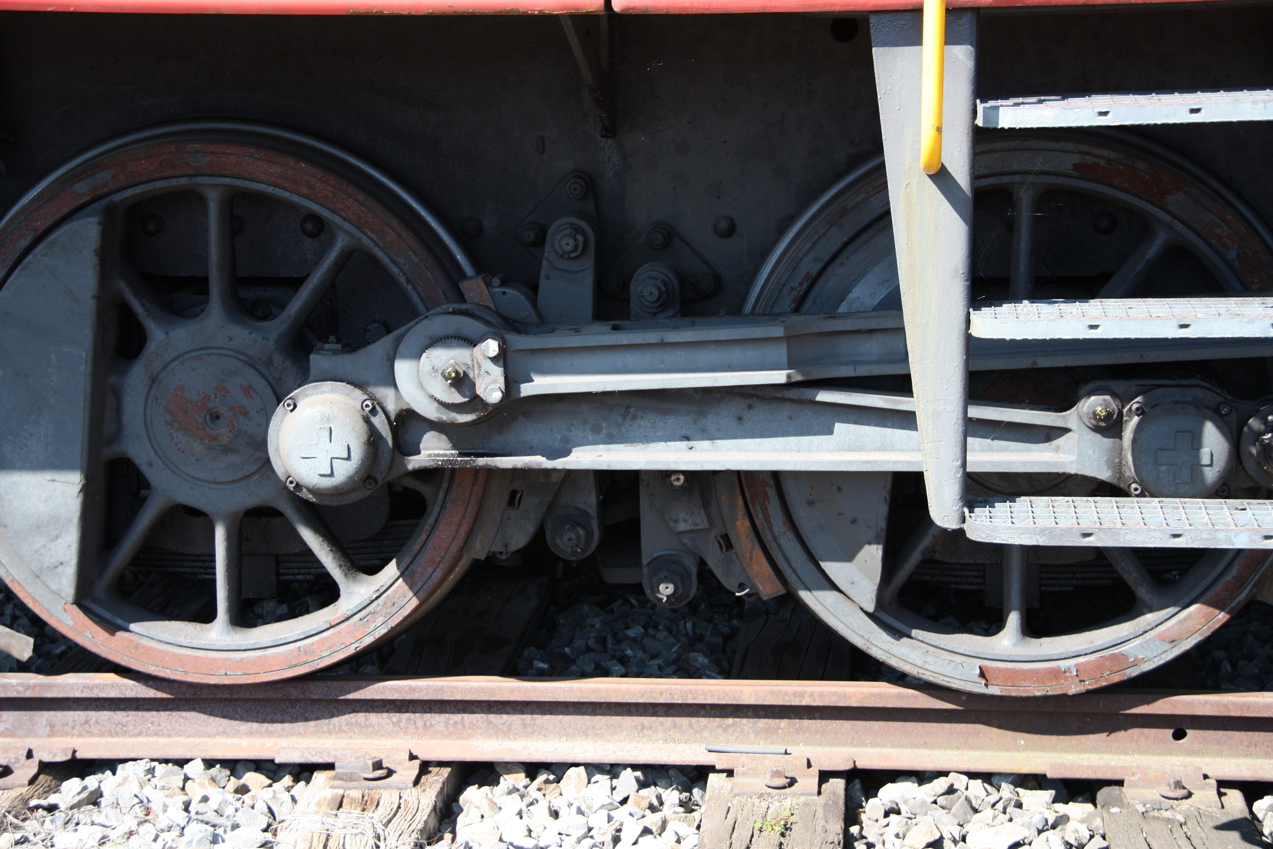 Rotkreuz train stationSBB Ee 3/3 16450Drive Detail